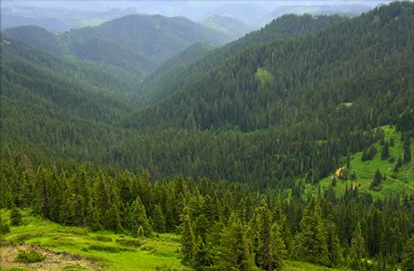 View of the Calapooya Mountains from Fairview Peak Lookout, Umpqua National Forest, Oregon